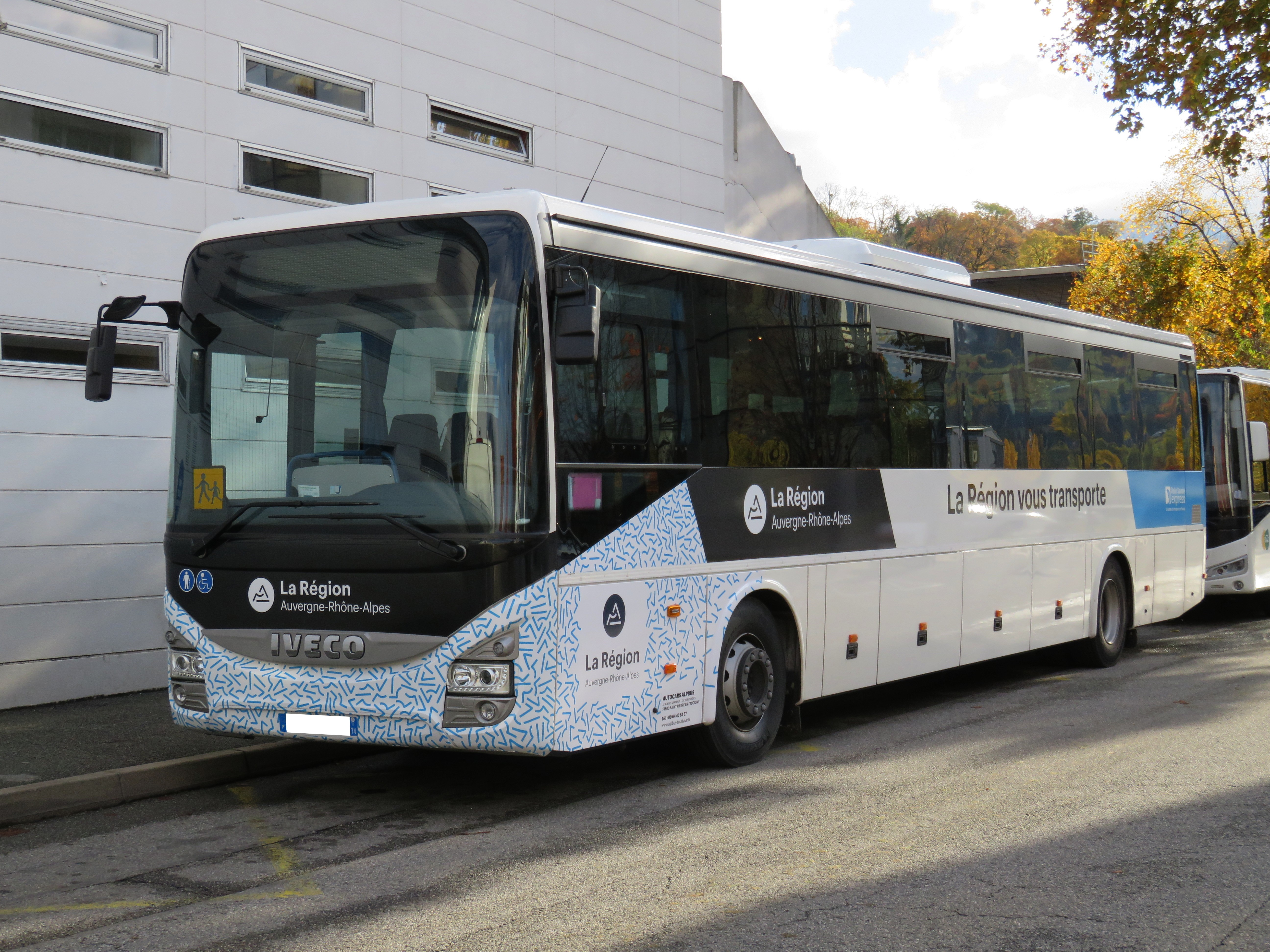 A Iveco Crossway (Alpbus) parked in the Rue Henri Oreiller (Chambéry, France) on November 8, 2018.